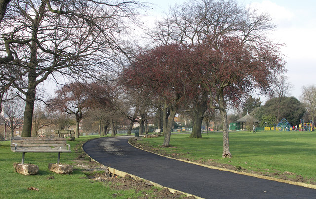 Mountsfield Park The park was opened in August 1905 following the acquisition of Mountsfield, the former house of Henry Stainton.